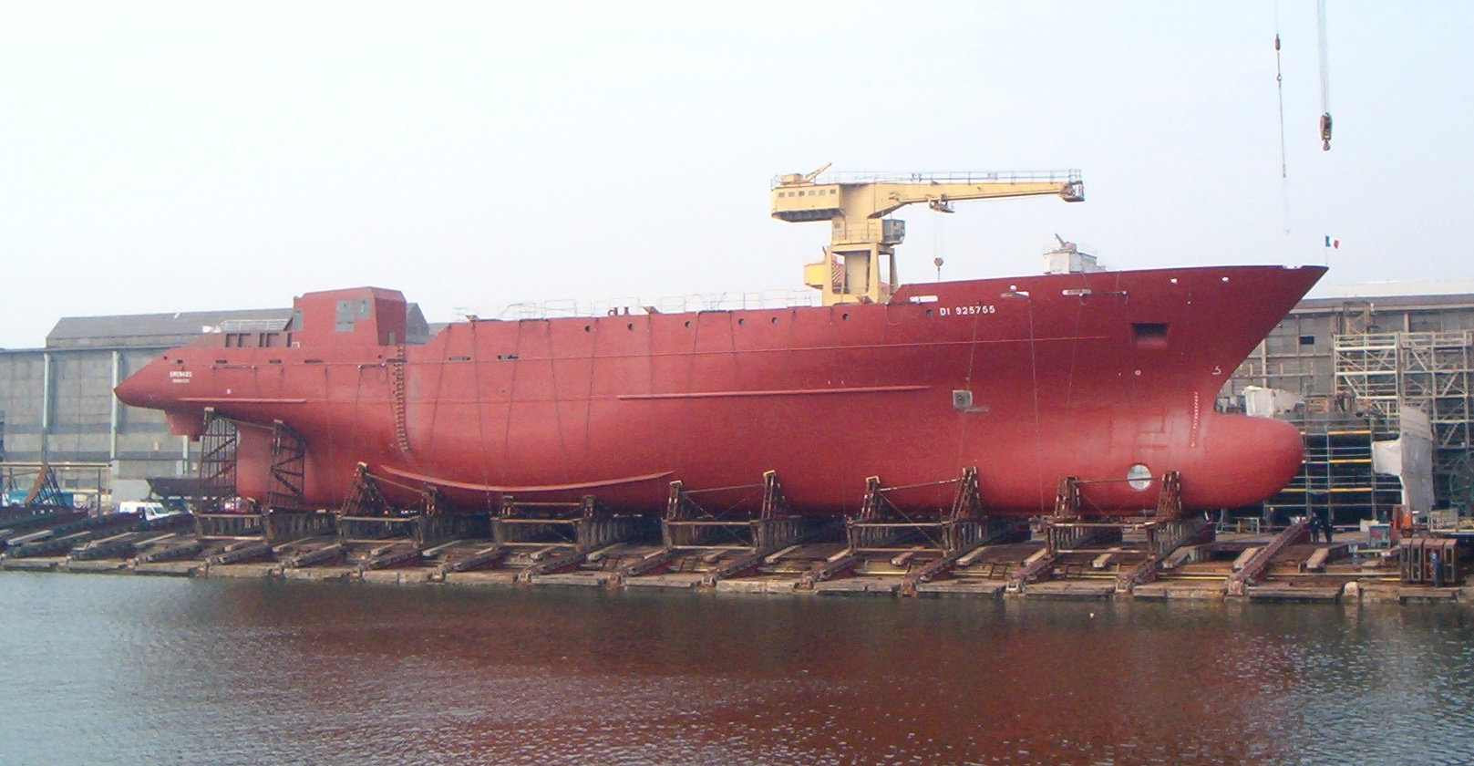 Hull on a slipway in Northern Shipyard in Gdansk, Poland